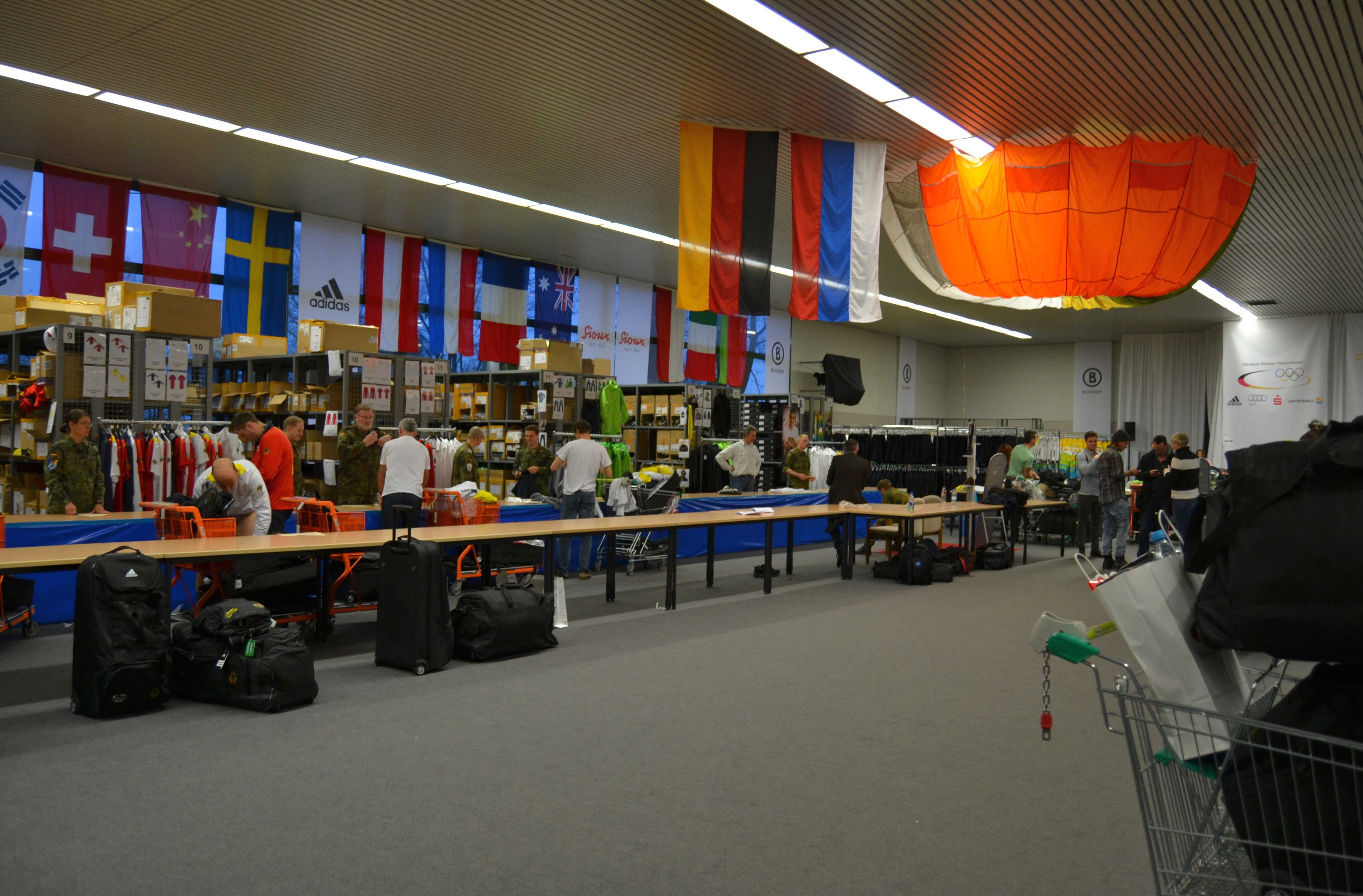 Outfitting the Olympic teams of Germany 2014; Media day January 20th 2014 at Military Airport Erding.